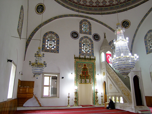 Interior view of Gülbahar Hatun Mosque located in Trabzon.